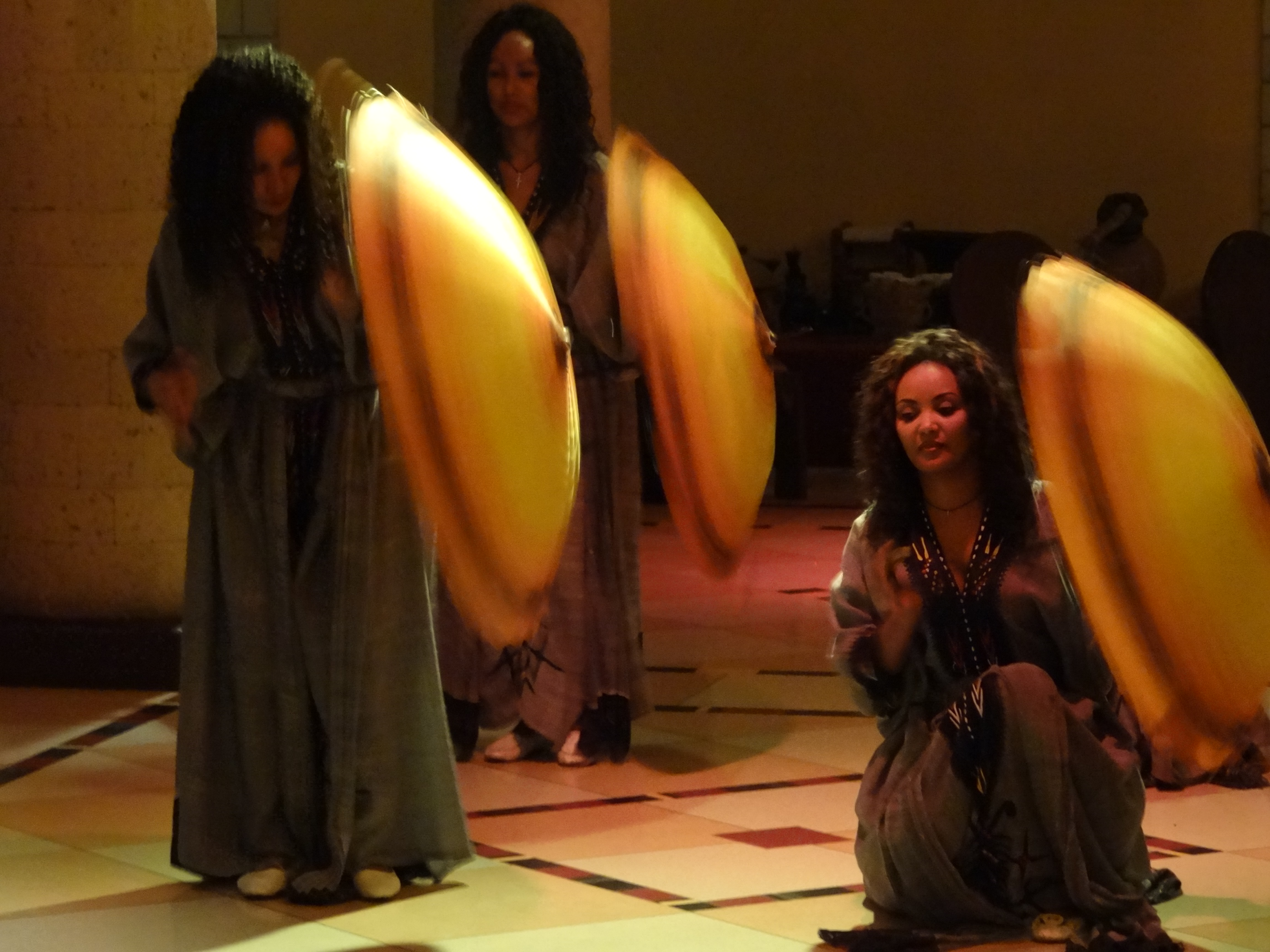 Habesha women in traditional attire performing a cultural dance.